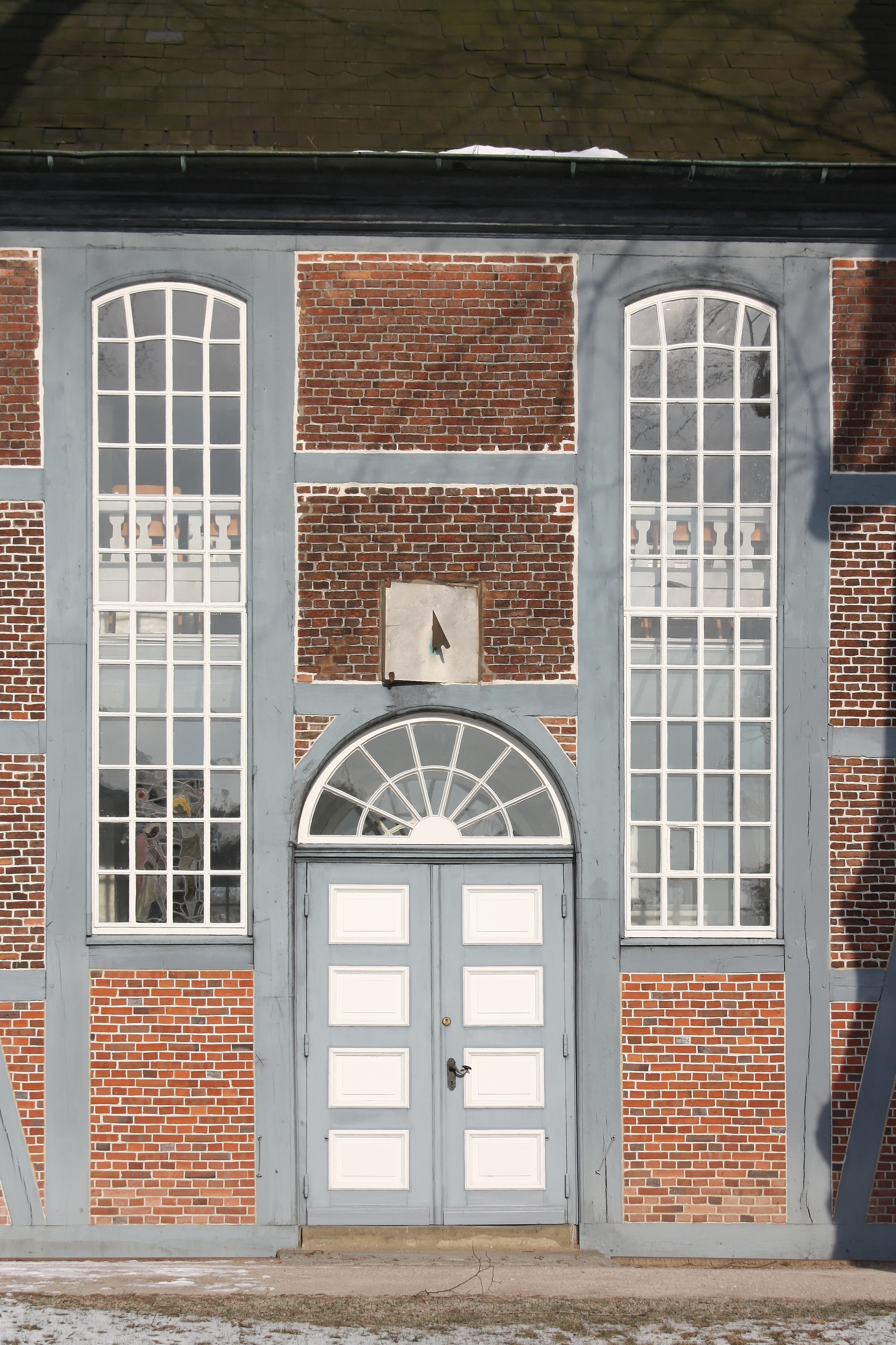 Hamburg, church in Nienstedten. Door in the southern wall with simple sundial above.